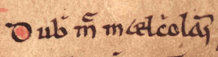 An excerpt from Bodleian Library MS Rawlinson B 489 (the Annals of Ulster), folio 32v. The excerpt concerns Dub mac Maíl Choluim, King of Alba (died 966/967).